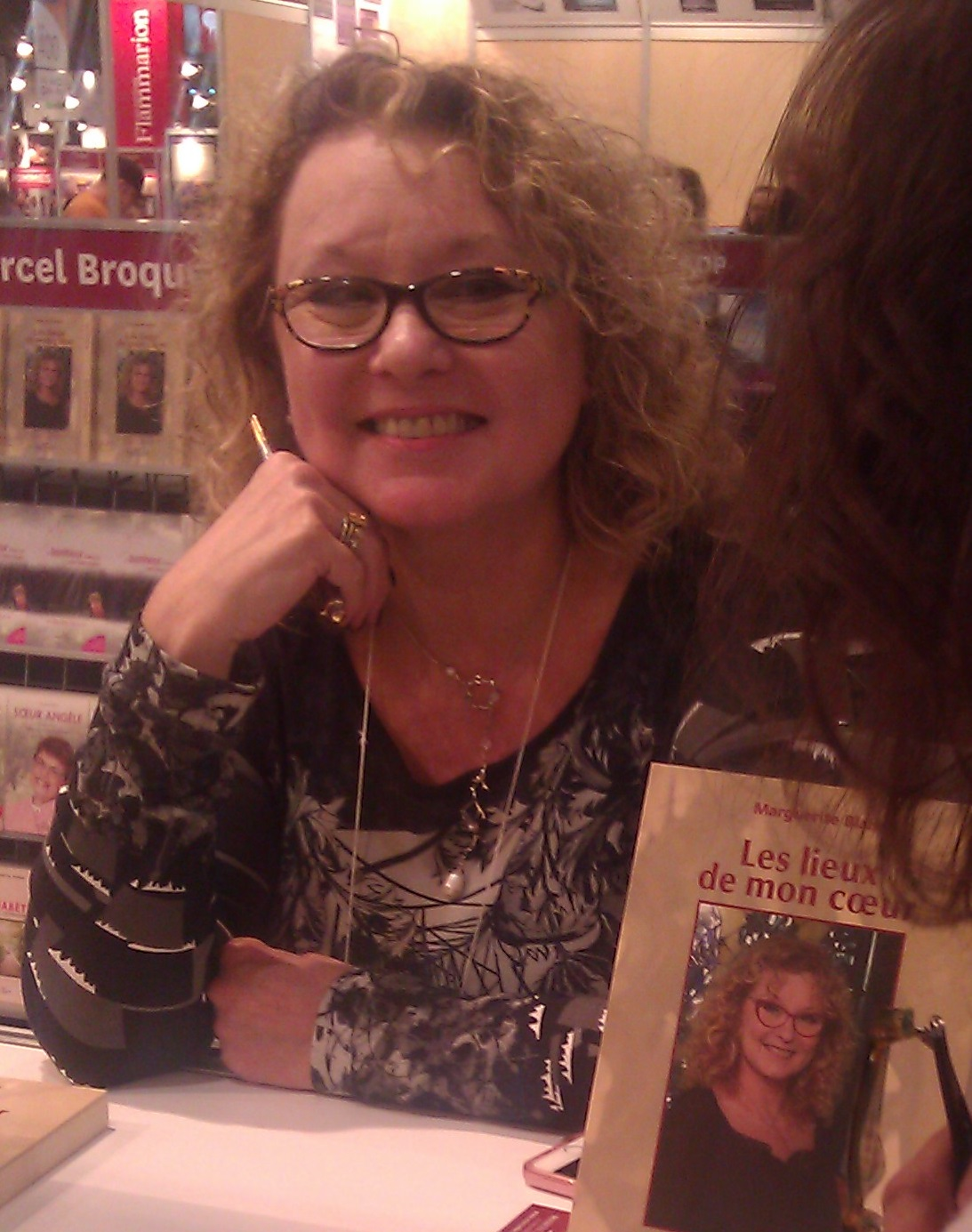 Marguerite Blais photographed in Montreal, Quebec, Canada at the Salon du livre de Montréal 2016.